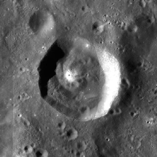 Kant crater, on the moon. Lunar Reconnaissance Orbiter Wide Angle Camera (WAC) mosaic.